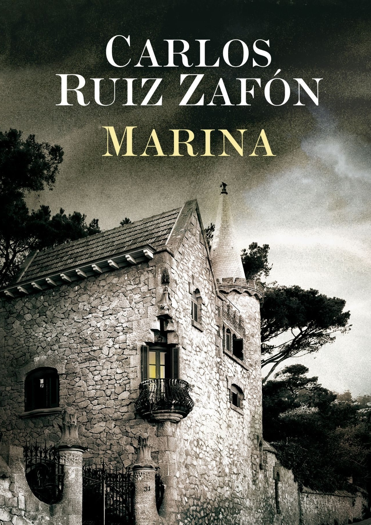 Cover - Marina